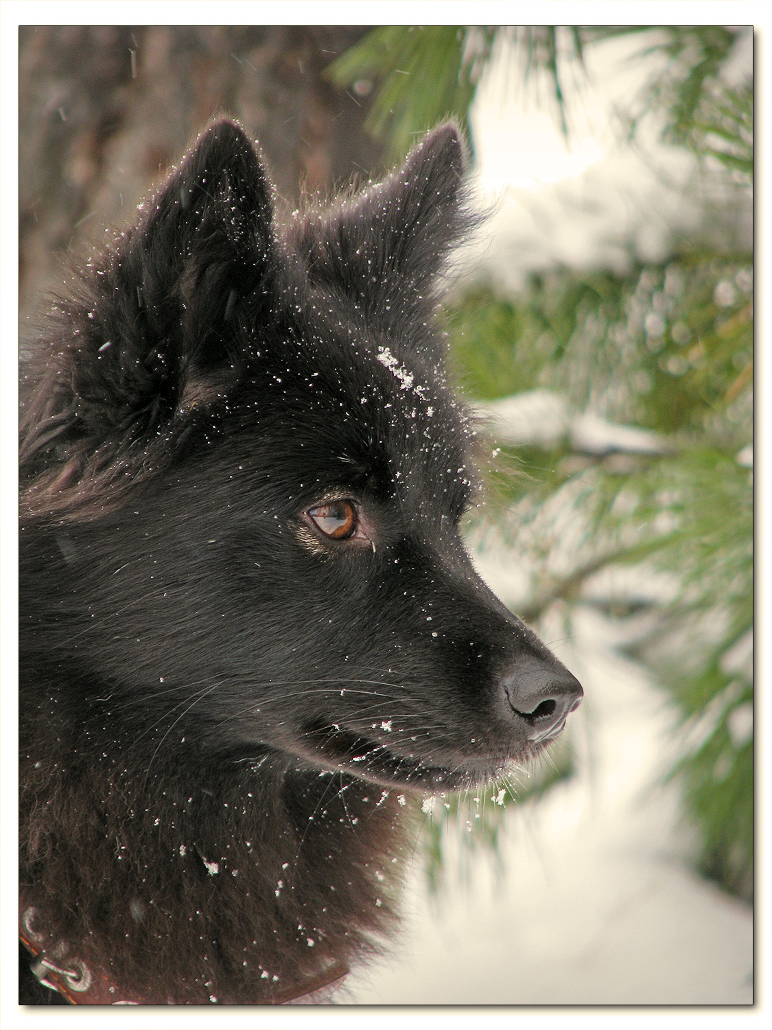 Фото Ненецкая лайка (оленегонный шпиц)